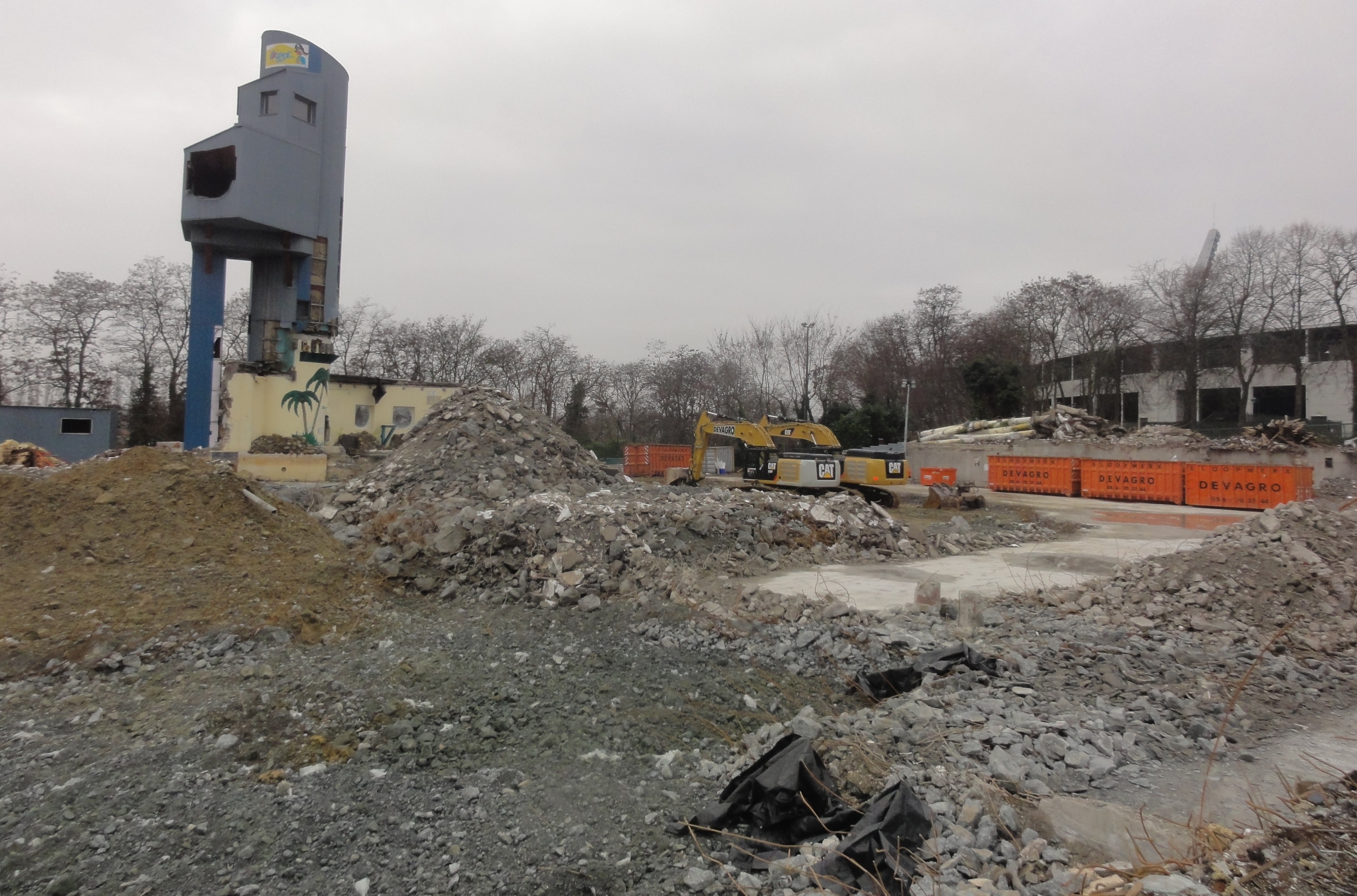 Depicted place: Océade